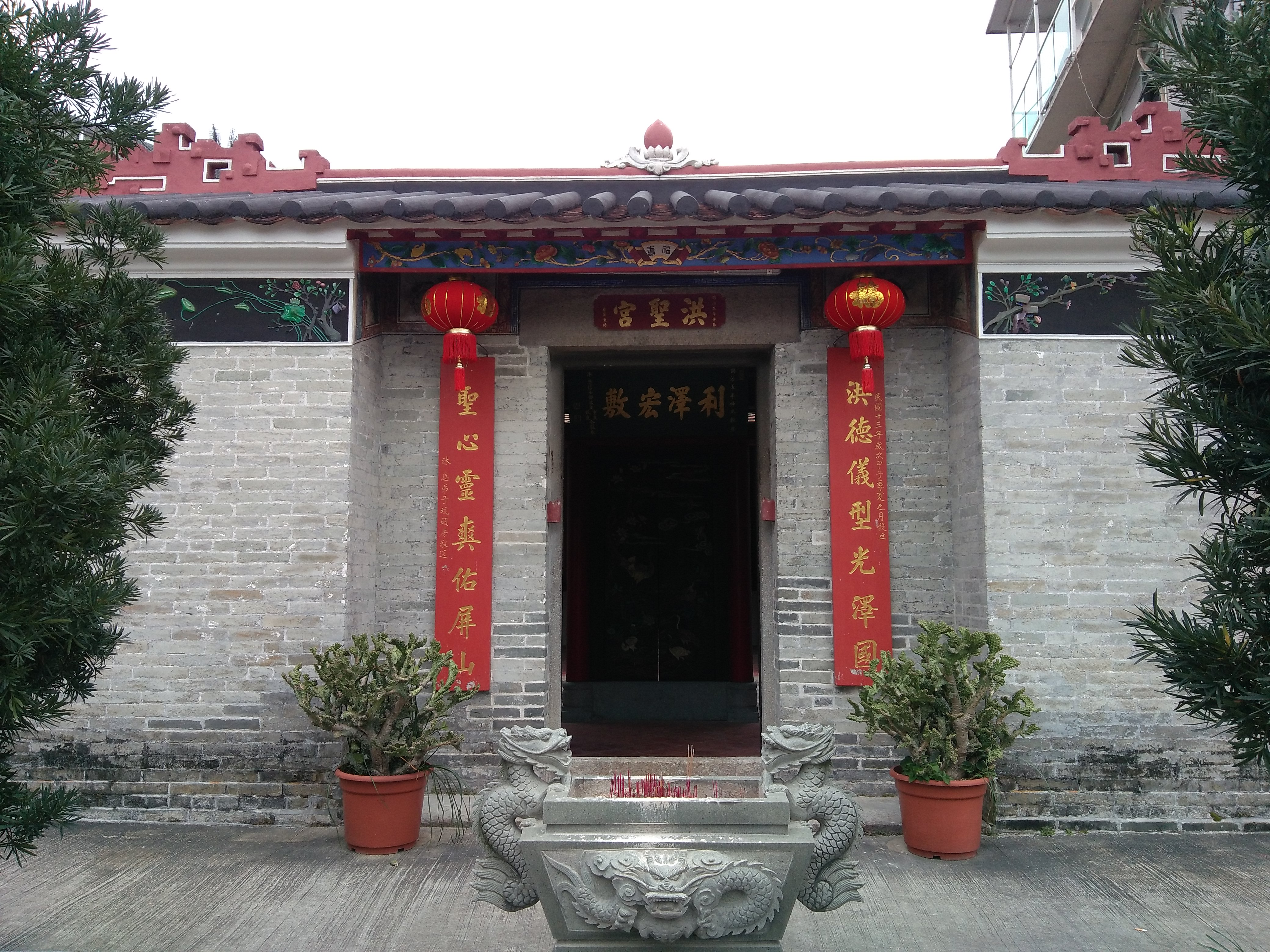 Hong Kong